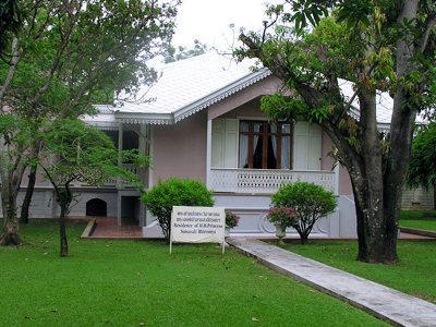 The mansion of H.H. Princess Saisavali Bhiromya Krom Phra Suddhasininart within Bang Pa-In Palace, Ayutthaya, Thailand